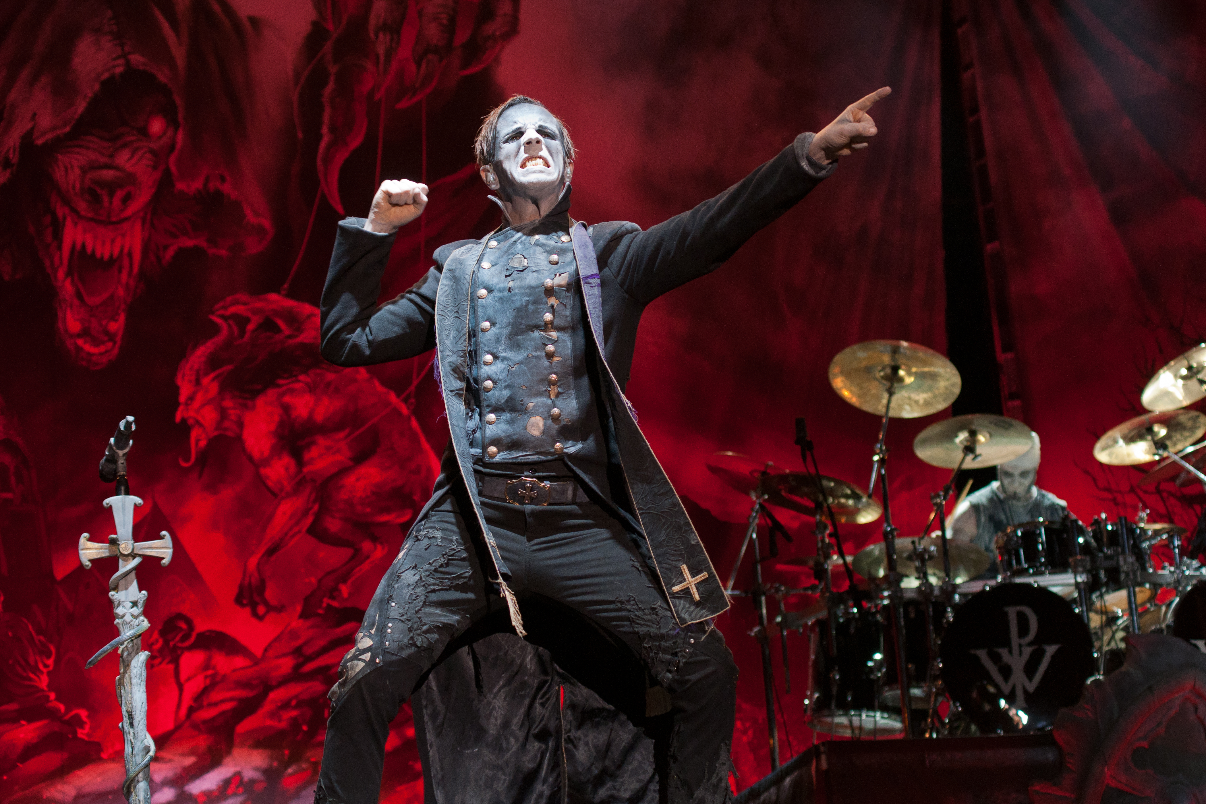 Falk Maria Schlegel Powerwolf - Masters of Rock 2018, Vizovice, Czech Republic, thanks to Pragokoncert